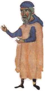 Peire Rogier, from BnF MS 12473, folio 2v.